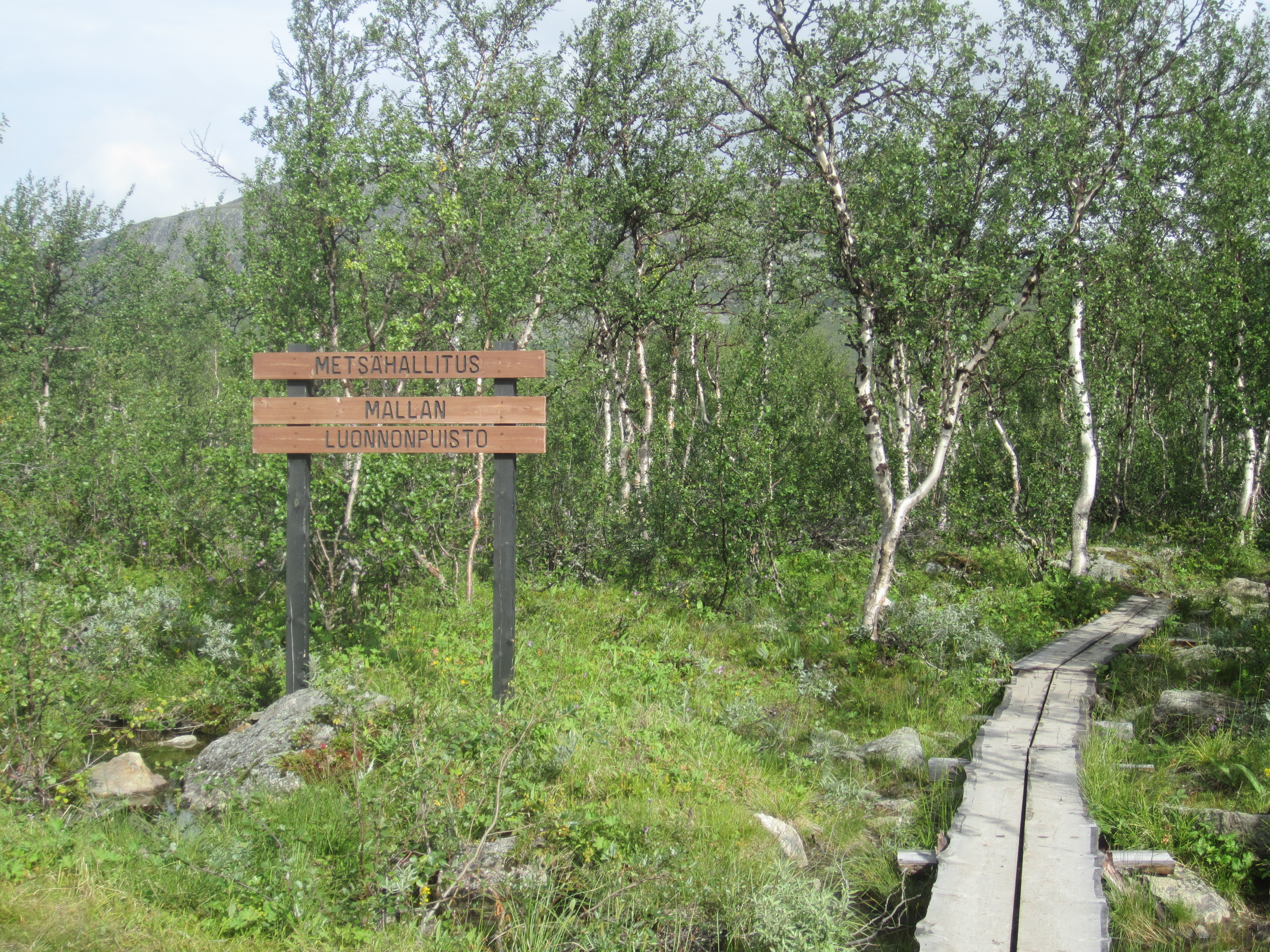 Malla natural park. Kilpisjärvi, Finland.